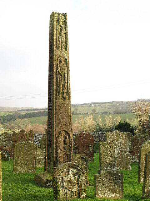 The 7th C Bewcastle Cross, near to Bewcastle, Cumbria, Great Britain. Pevsner says (adapted): The Cross has lost its cross-head, but still stands 14 ft 6 in above the pedestal. What distinguishes it from all the other crosses in Cumbria is the sacred figures carved in it. At the bottom, in a shallow arched recess is St. John the Evangelist; then an inscription in runes commemorating King Alcfrith (died 670); then Christ stepping on the lion and the adder and holding a scroll in one hand; and then, in a rectangular recess, St. John the Baptist with the Agnus Dei. The quality throughout is amazingly high, even though not quite as high as in NY1068 : The Ruthwell Cross (photo by Lairich Rig) in Dumfries and Galloway. There is nothing as perfect as these two crosses and of a comparable date in the whole of Europe.